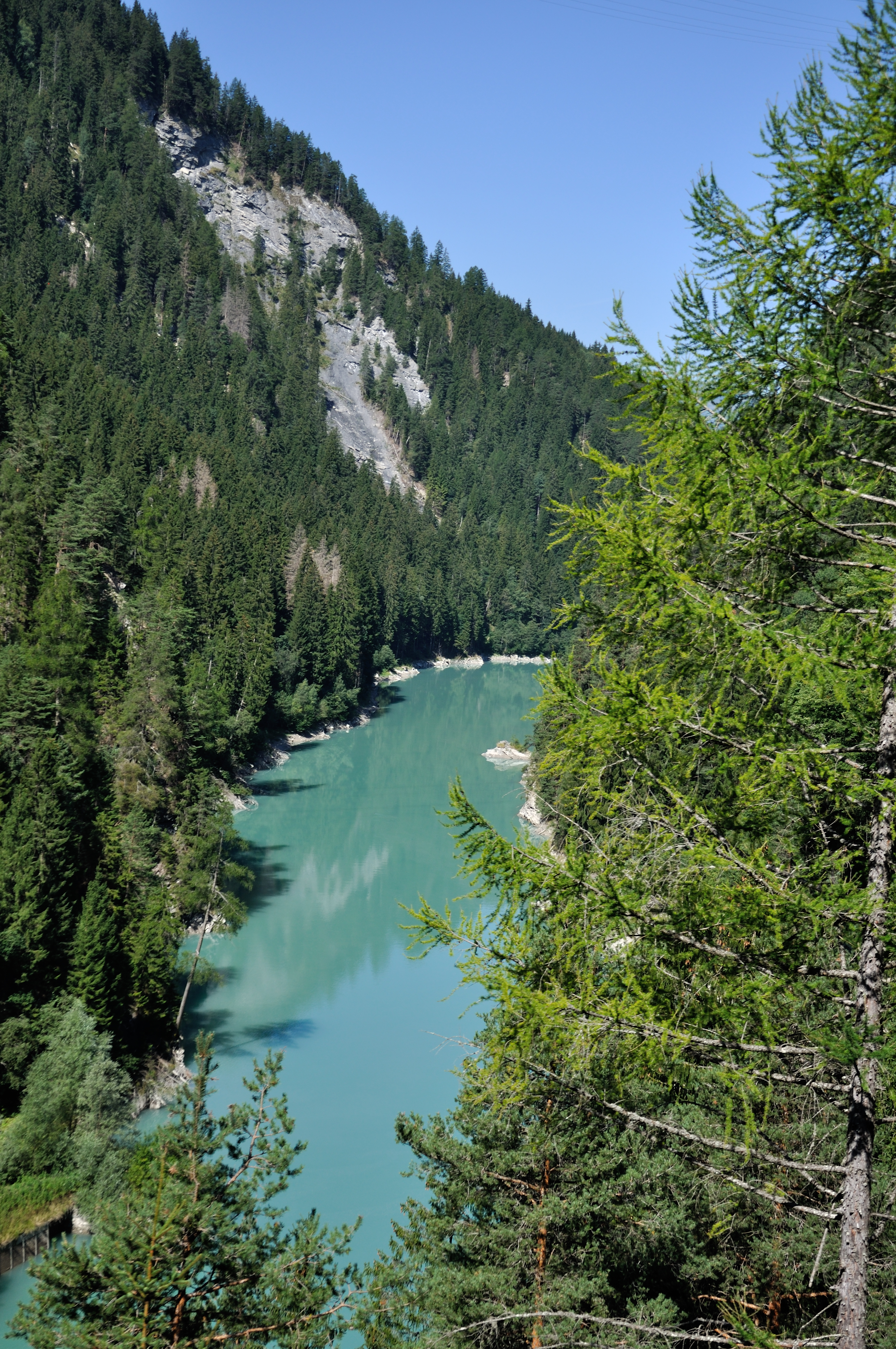 Switzerland, Graubünden, impressions on the Albula line of the Rhaetian Railways between Bergün and Thusis (Stausee Solis lake)